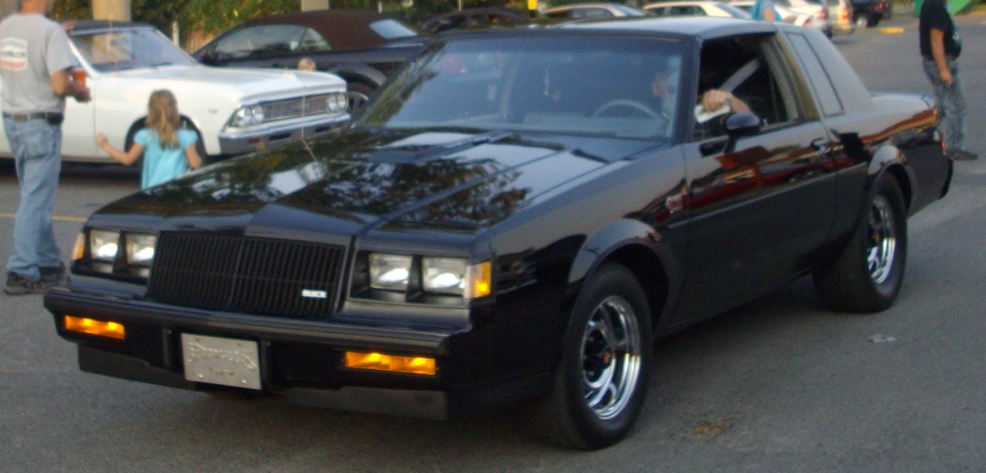 1987 Buick Regal Grand National photographed in Châteauguay, Quebec, Canada at Auto classique A&W Châteauguay.